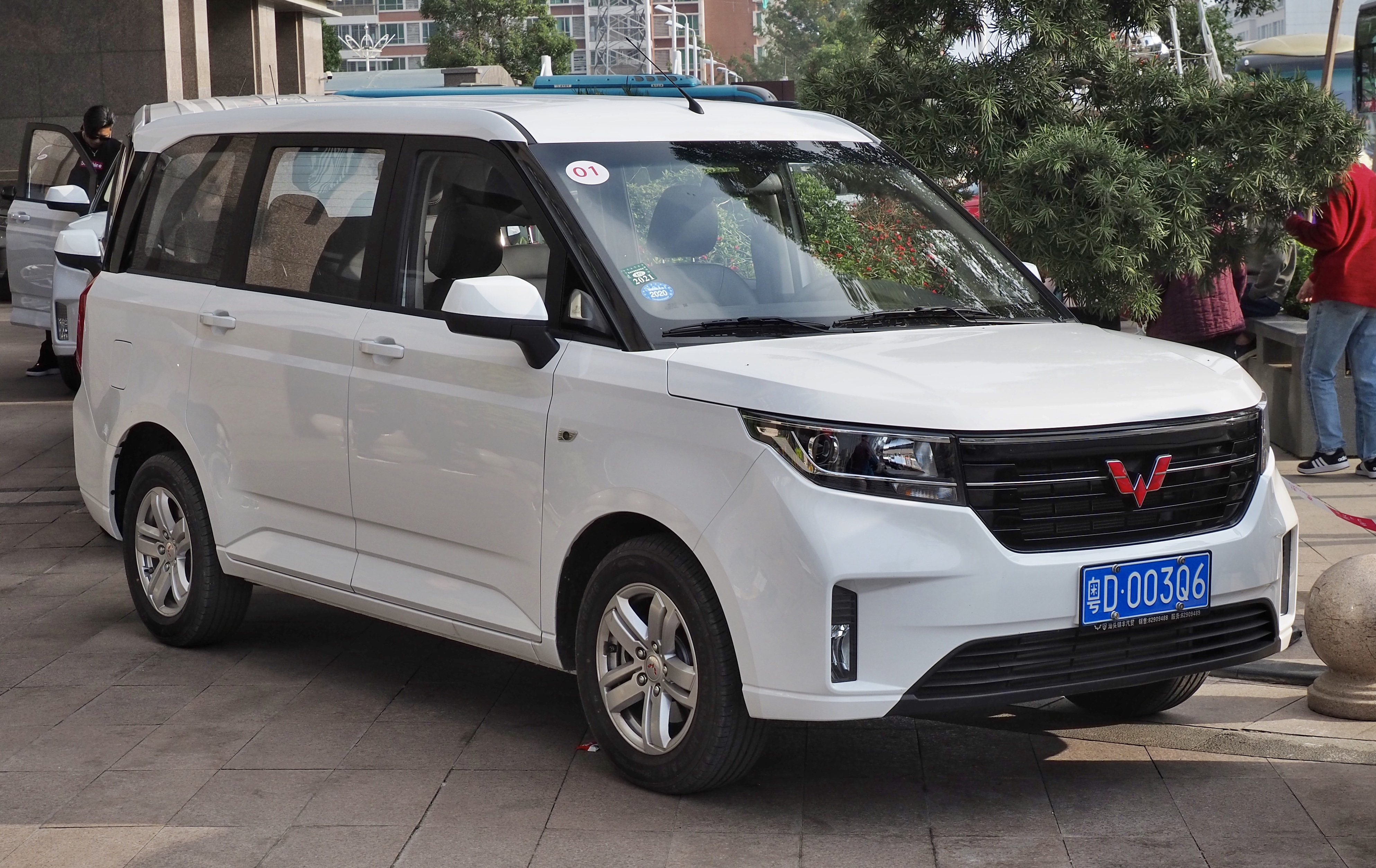 A 2019 Wuling Hongguang Plus photographed in Shantou, Guangdong Province, China. 中文（中国大陆）: 一辆2019年的五菱宏光Plus，拍摄于中国广东省汕头市。